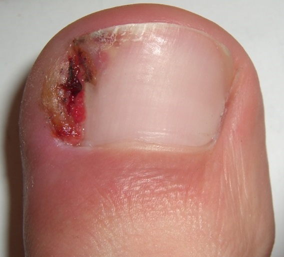 Cropped image: Original desc